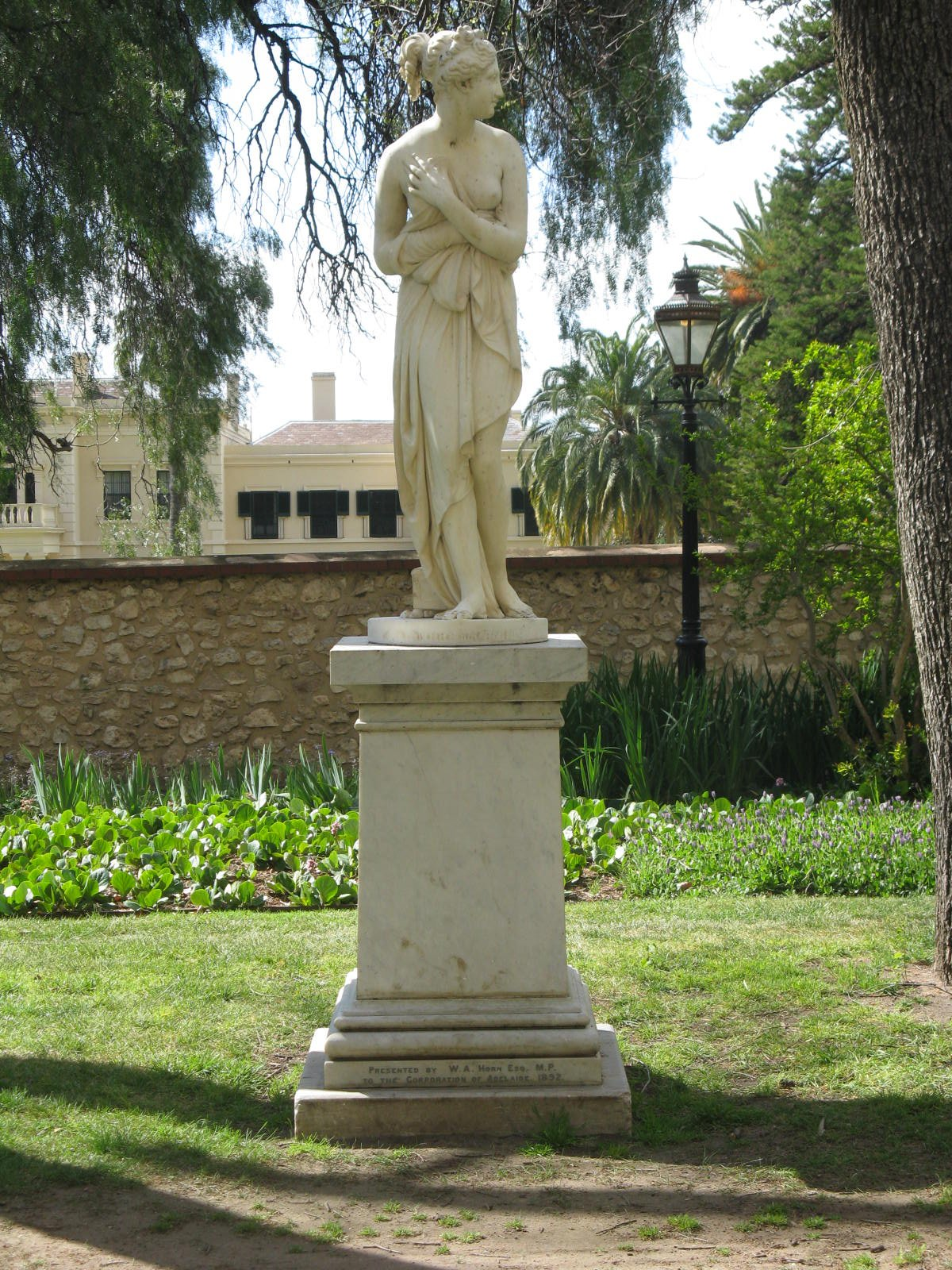 Jubilee 150 Walkway Statue of VenereDiCanova